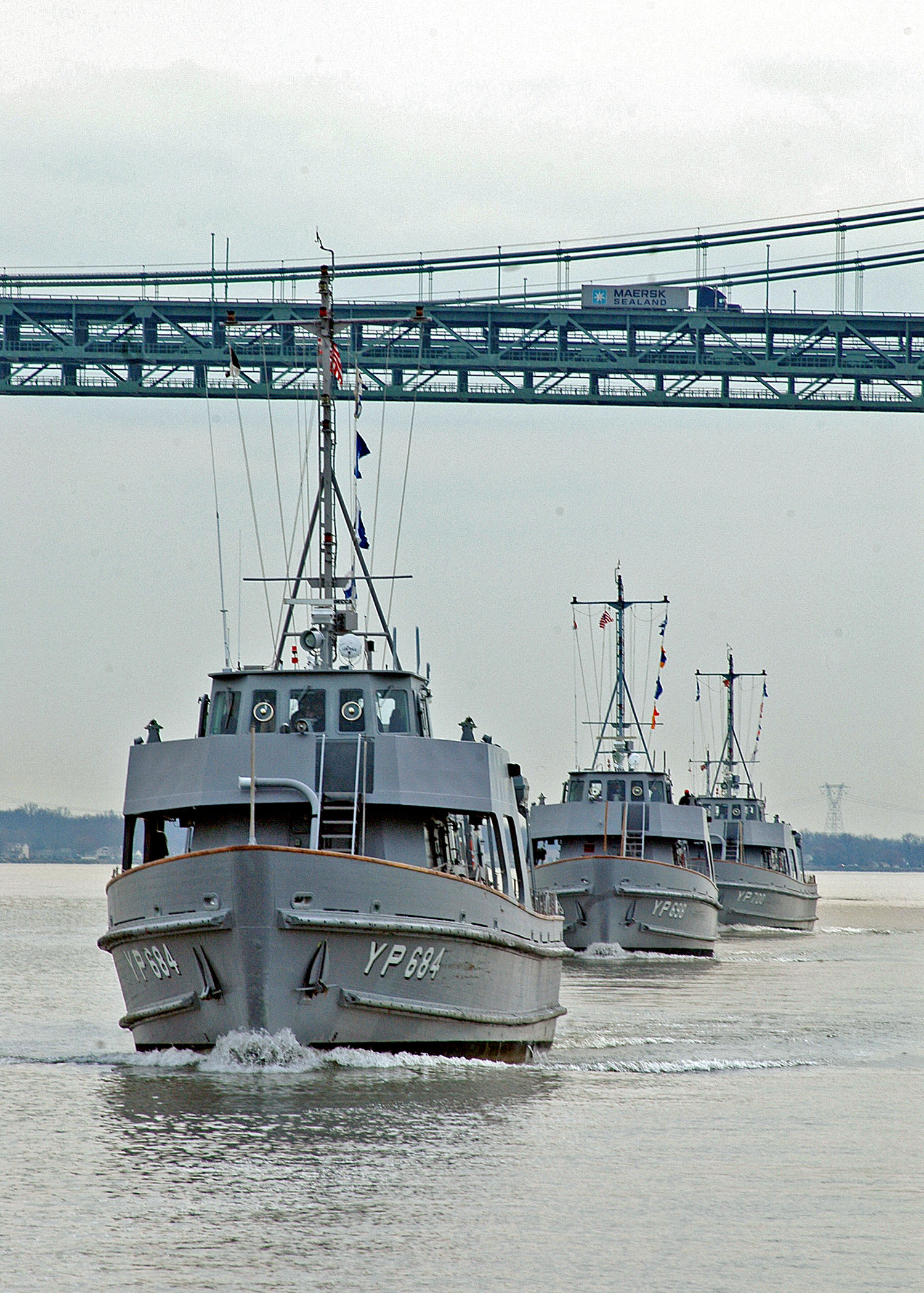 Delaware River, Pennsylvania (March 24, 2006) - Yard Patrol Craft (YPs) from Naval Station Annapolis, Md., sail to Philadelphia for a three-day training exercise. Naval Station Annapolis maintains a fleet of 18 YPs and sail craft to support U.S. Naval Academy midshipmen with navigation, ship-handling and seamanship training. U.S. Navy photo by Photographer's Mate Airman Cale Hanie (RELEASED)